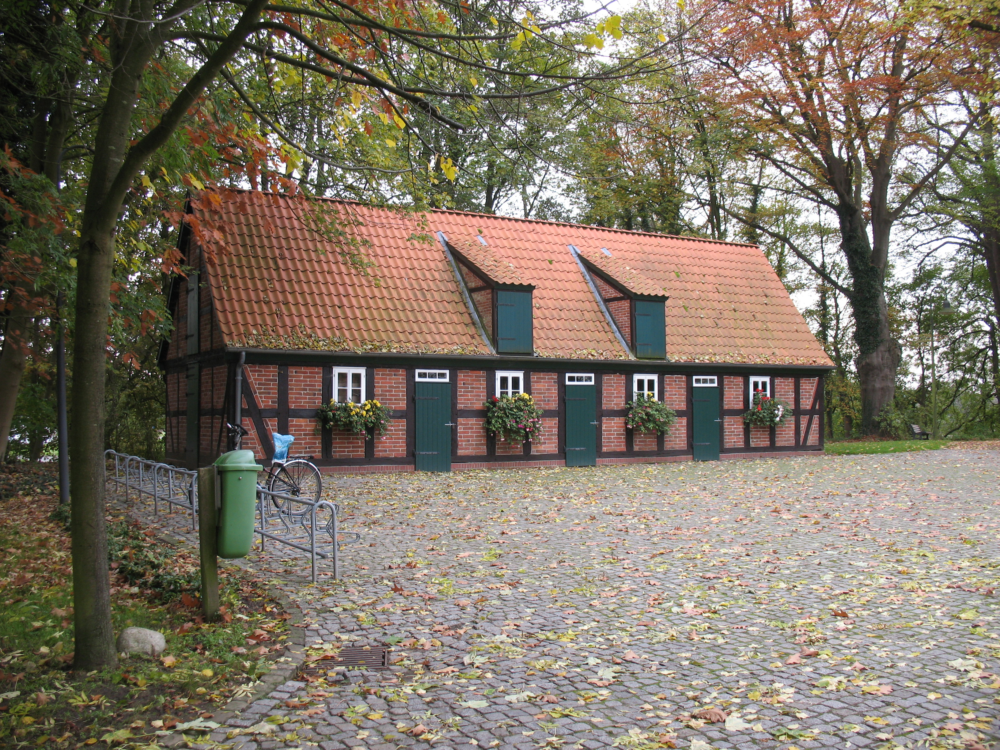 Castle Hagen, northwestern Germany, Cuxhaven, outbuilding